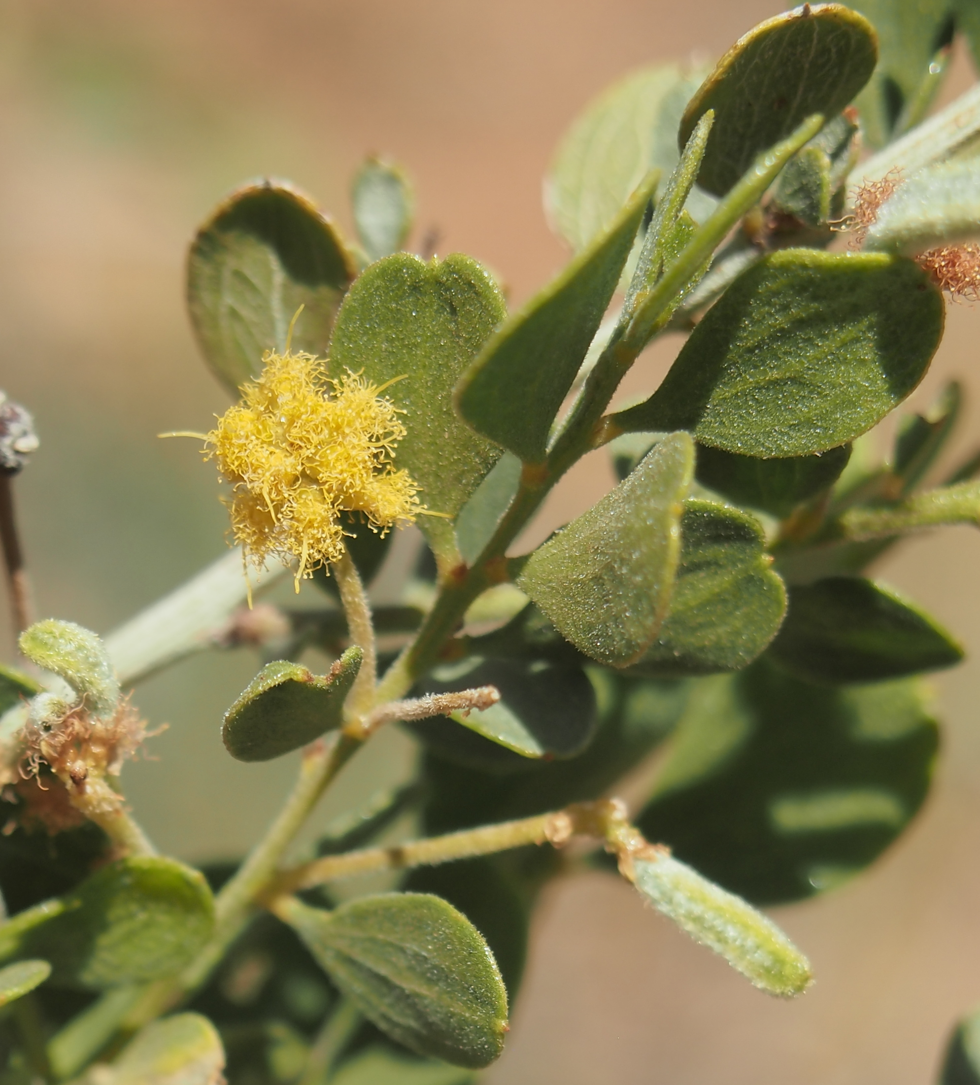 Acacia monticola flower